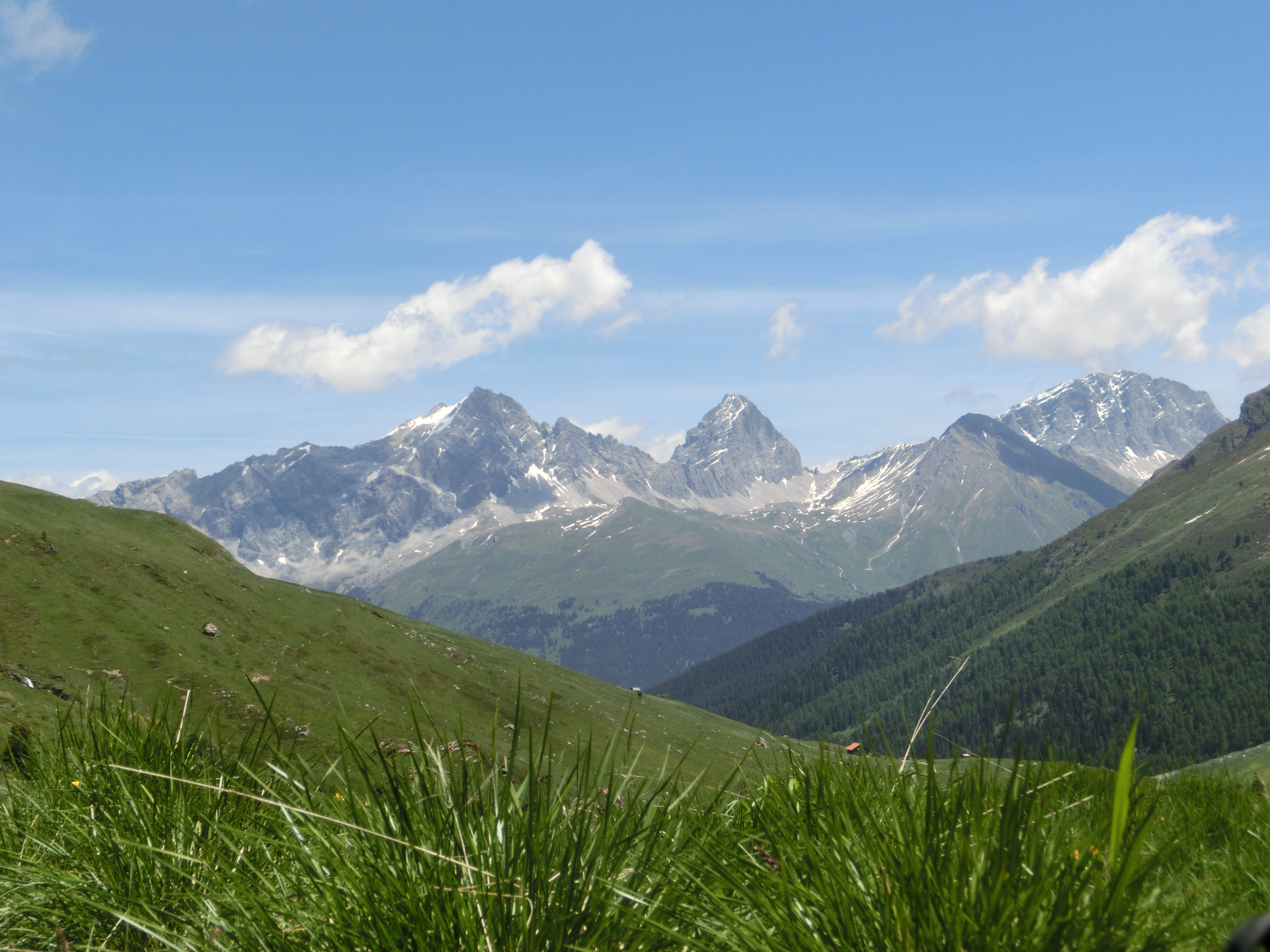 Bergüner Stöcke with Piz Mitgel, Tinzenhorn, Pizza Grossa and Piz Ela (from left to right), picture taken from Val Schmorras, Riom, Grison, SwitzerlandRumantsch: Pizs da Bravuogn cun Piz Mitgel, Corn da Tinizong, Pizza Grossa e Piz Ela (da sanester a dretg), piglia se davent dalla Val Schmorras, Riom, Grischun, Svizra